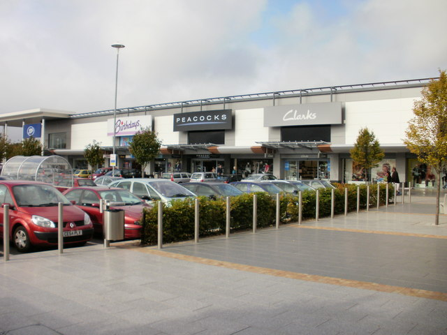 Newport Retail Park shops From right to left are Clarks shoe shop. Peacocks clothing store. Birthdays greeting card shop and Boots.